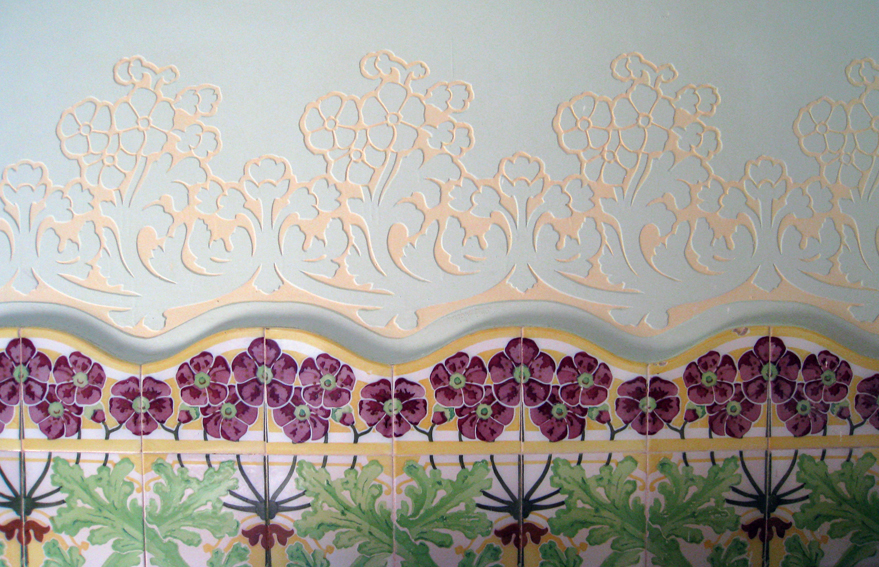 Wall tiles from the years 1904/1905 with floral ornaments in Can Ginestar in Sant Just Desvern (Catalonia, Spain).